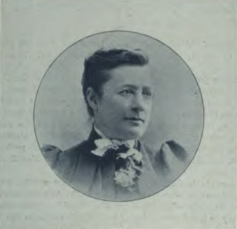 Lucy Maria Field Wanzer, first female graduate of a medical school west of the Mississippi, from the 1892 book "Master hands in the affairs of the Pacific Coast: A Resumé of the Builders of Our Material Progress".